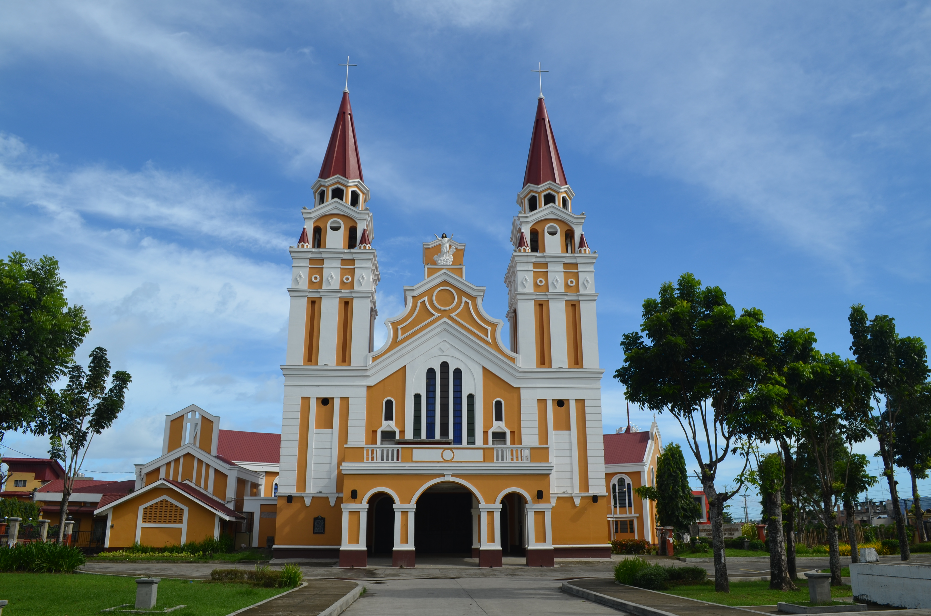 The facade of the Palo Cathedral. Taken during the December 2015 Sinirangan Bisaya Wikimedia Community activities in Eastern Visayas.